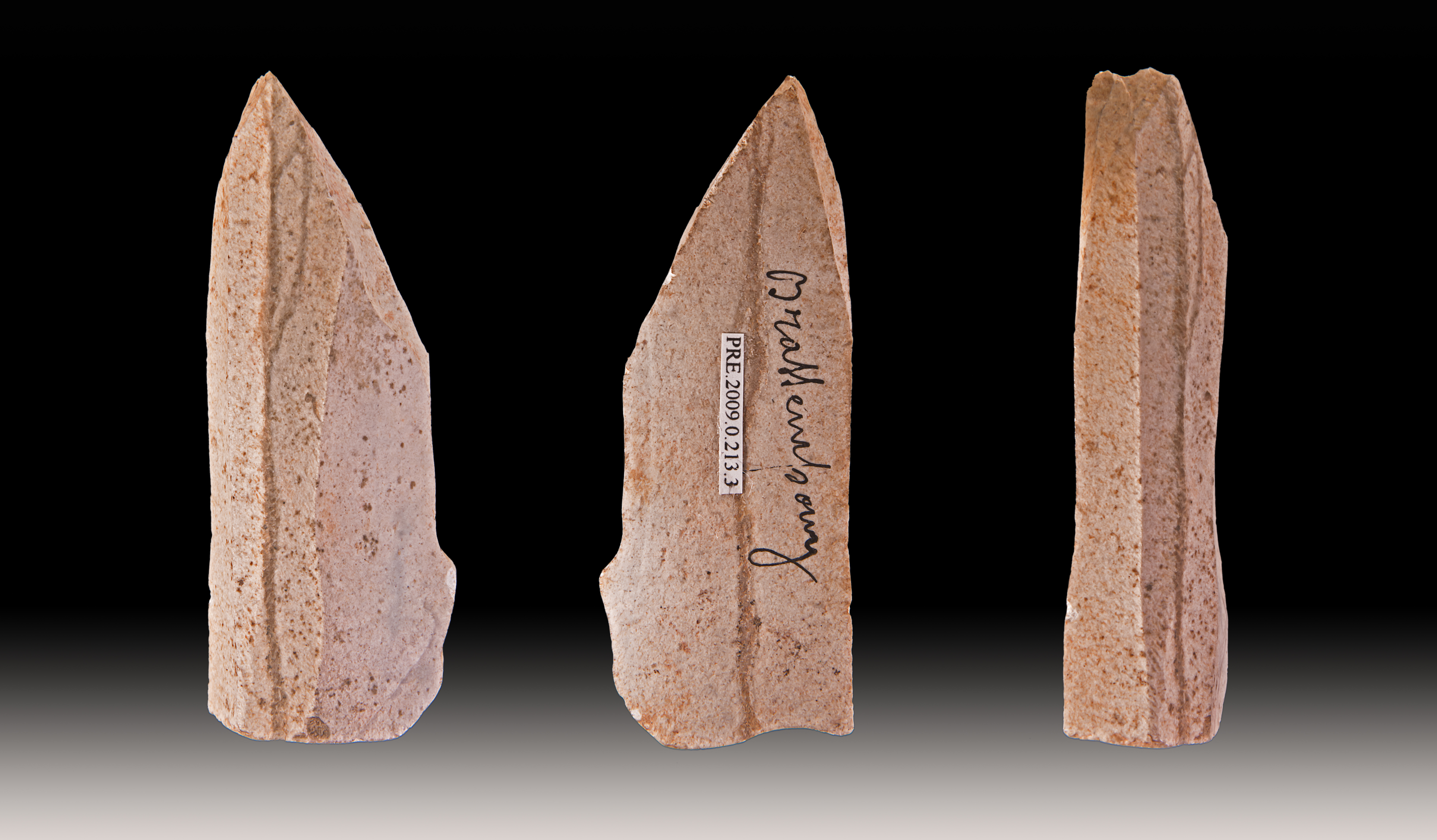 Flint Burin Stage : Upper Paleolithic (Gravettian) (-29,000 to –22,000 Before the Current Era) Locality : Brassempouy, Landes department, France Muséum of Toulouse MHNT.PRE.2009.0.213.3 (6.9x2.6x1.2 cm – 27.3g) - Different views of the same specimen